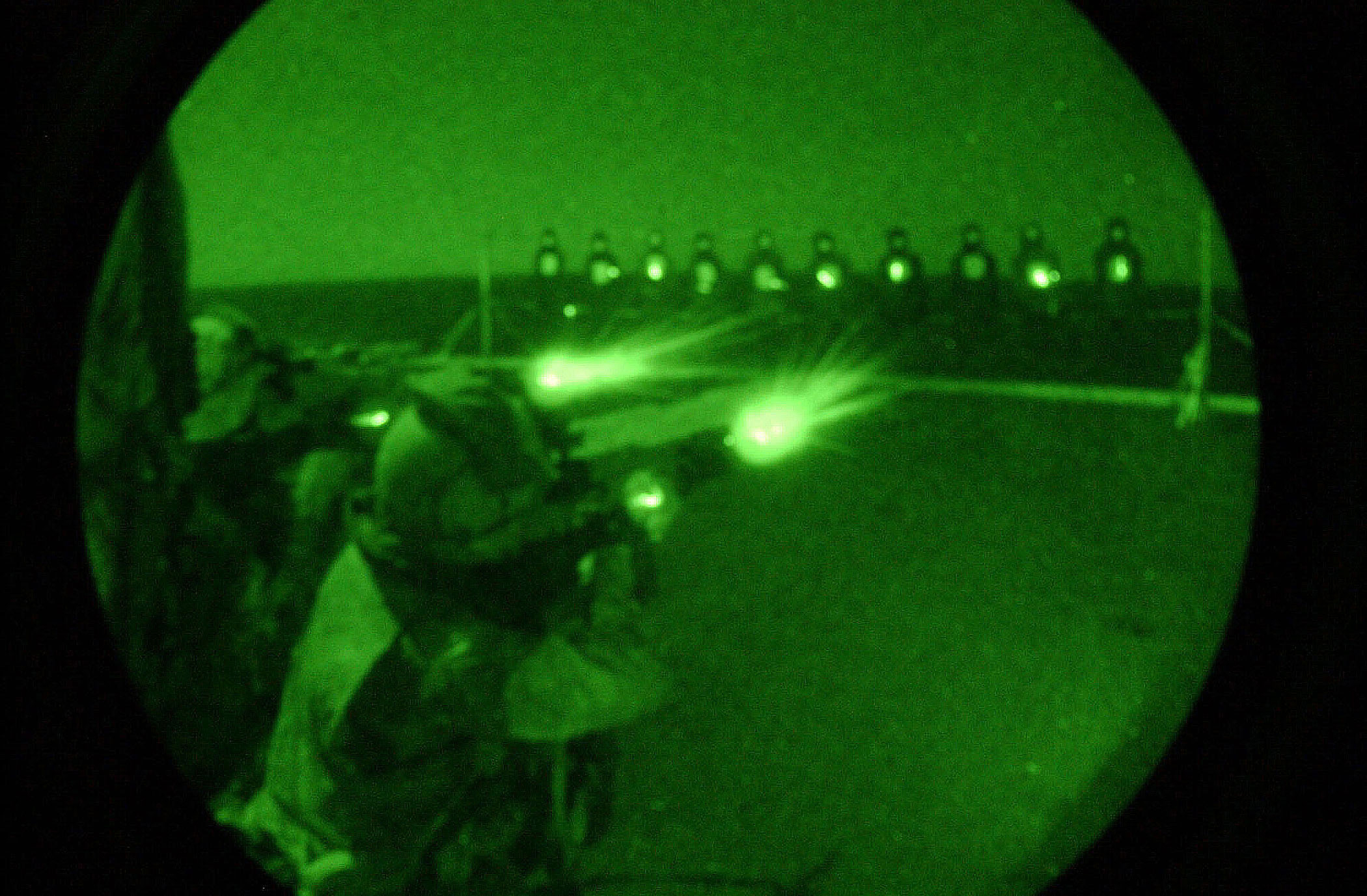 At sea aboard USS Bataan (LHD 5) Dec. 7, 2001. U.S. marines of the 26th Marine Expeditionary Unit (Special Operations Capable) conduct a small arms live-fire exercise on the flight deck aboard USS Bataan. The Bataan Amphibious Ready Group is deployed in support of Operation Enduring Freedom.